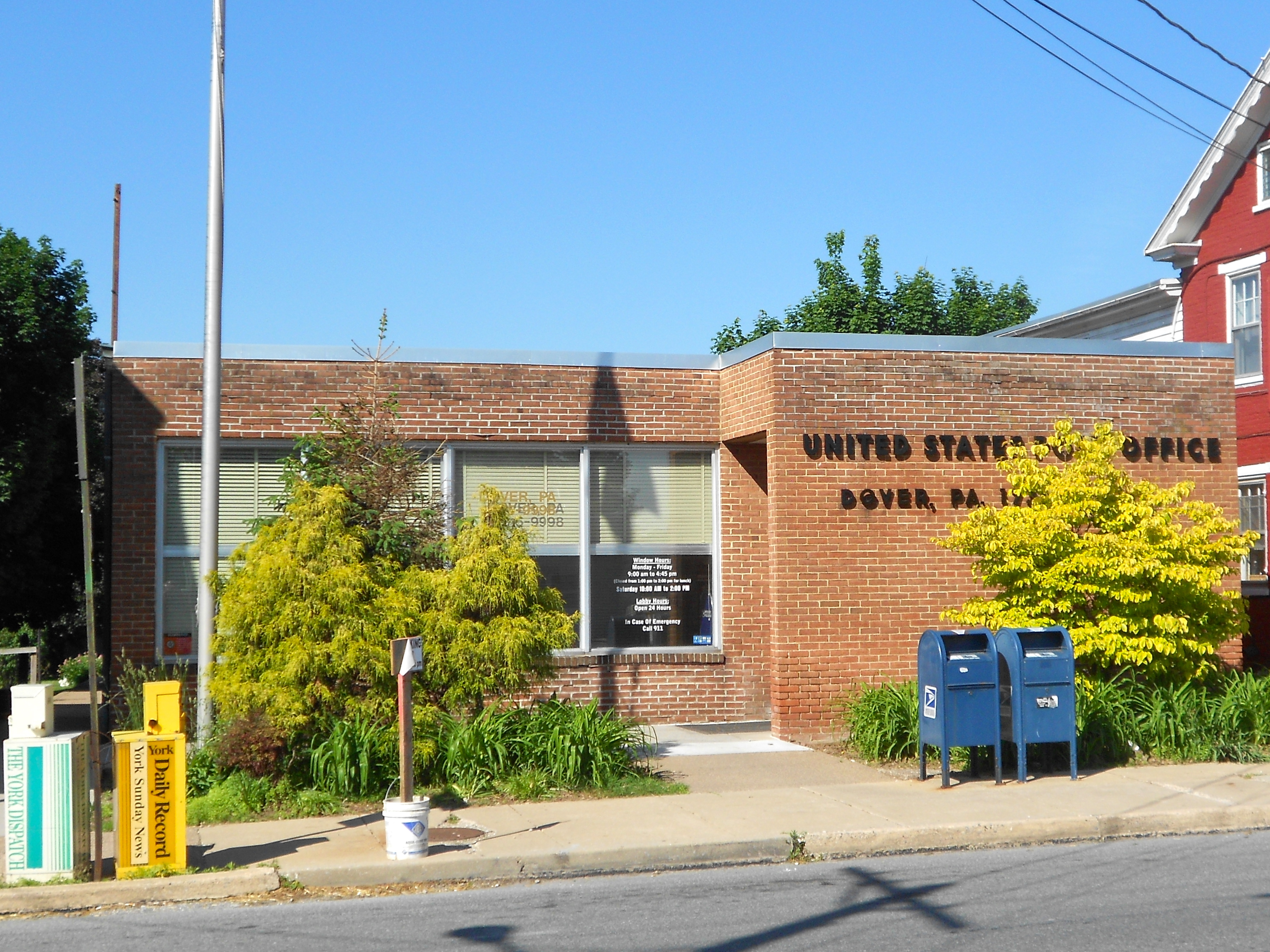 Post office 24 North Main Street, Dover, Pennsylvania.